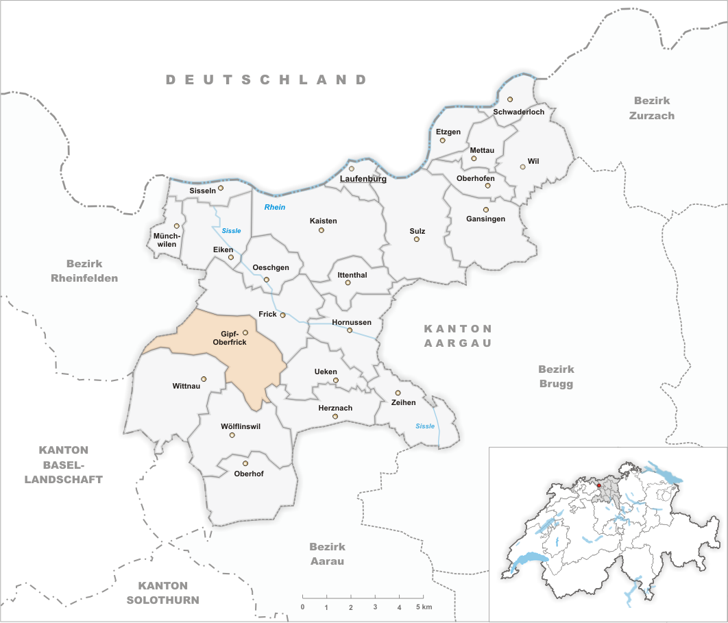 Municipality Gipf-Oberfrick